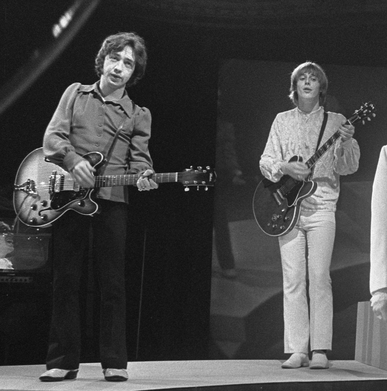 George Young and Harry Vanda, on stage as part of The Easybeats (VARA TV, The Netherlands), 13 August 1968.